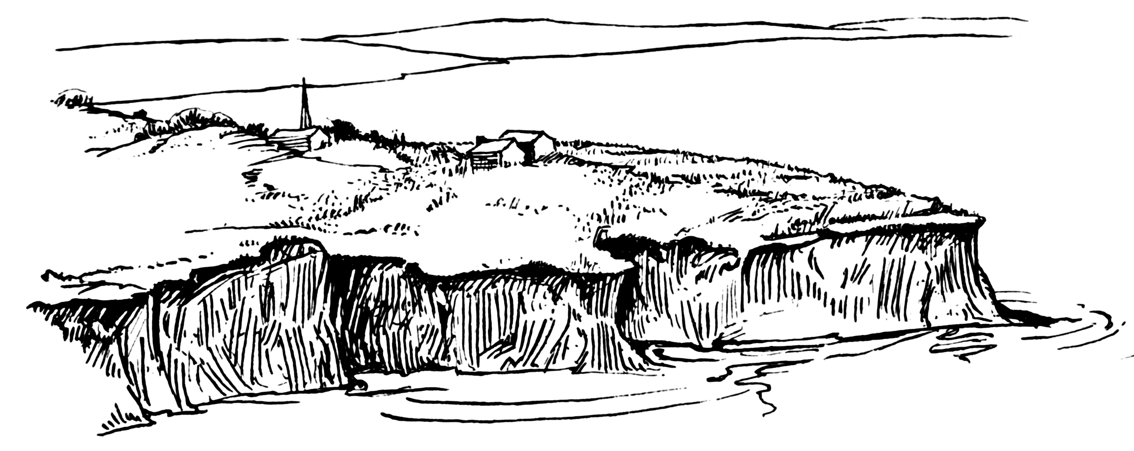 Line art drawing of promontory.